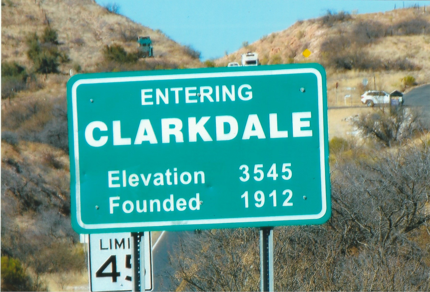 Welcome to Clarkdale, Az. sign